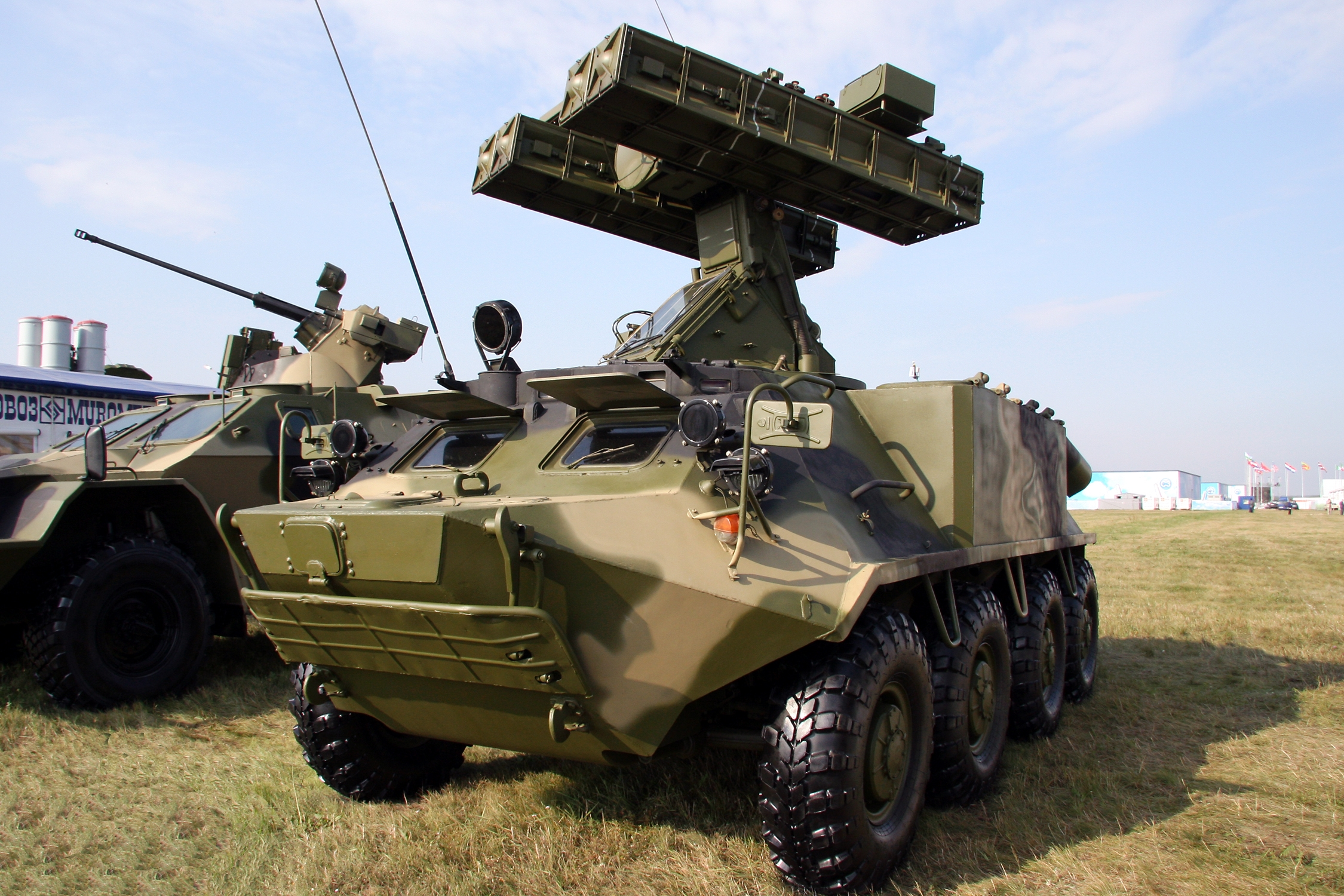 9K35M3-K Kolchan SAM at MAKS 2009.